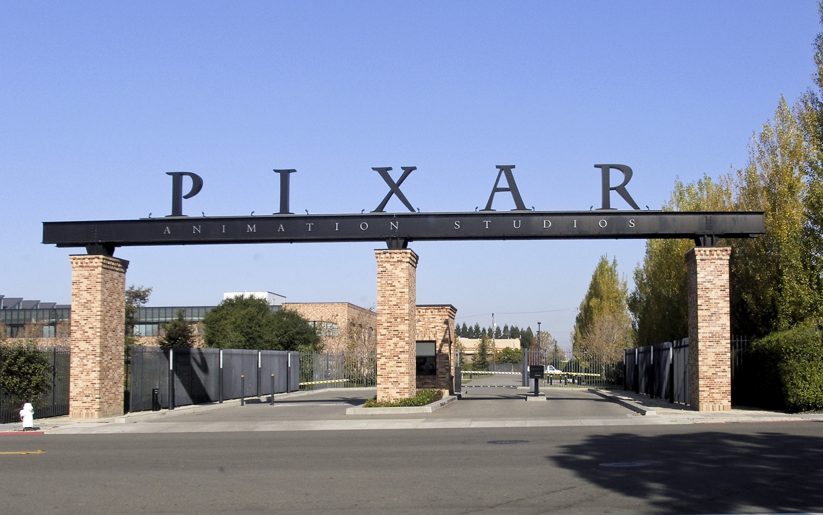 The entrance to Pixar's studio lot in Emeryville, California. Photographed by [User Coolcaesar] on April 16, 2007.